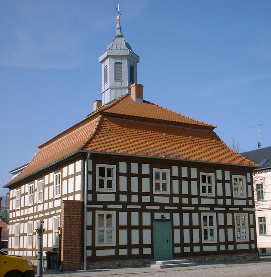 Town hall in Biesenthal in Brandenburg, Germany